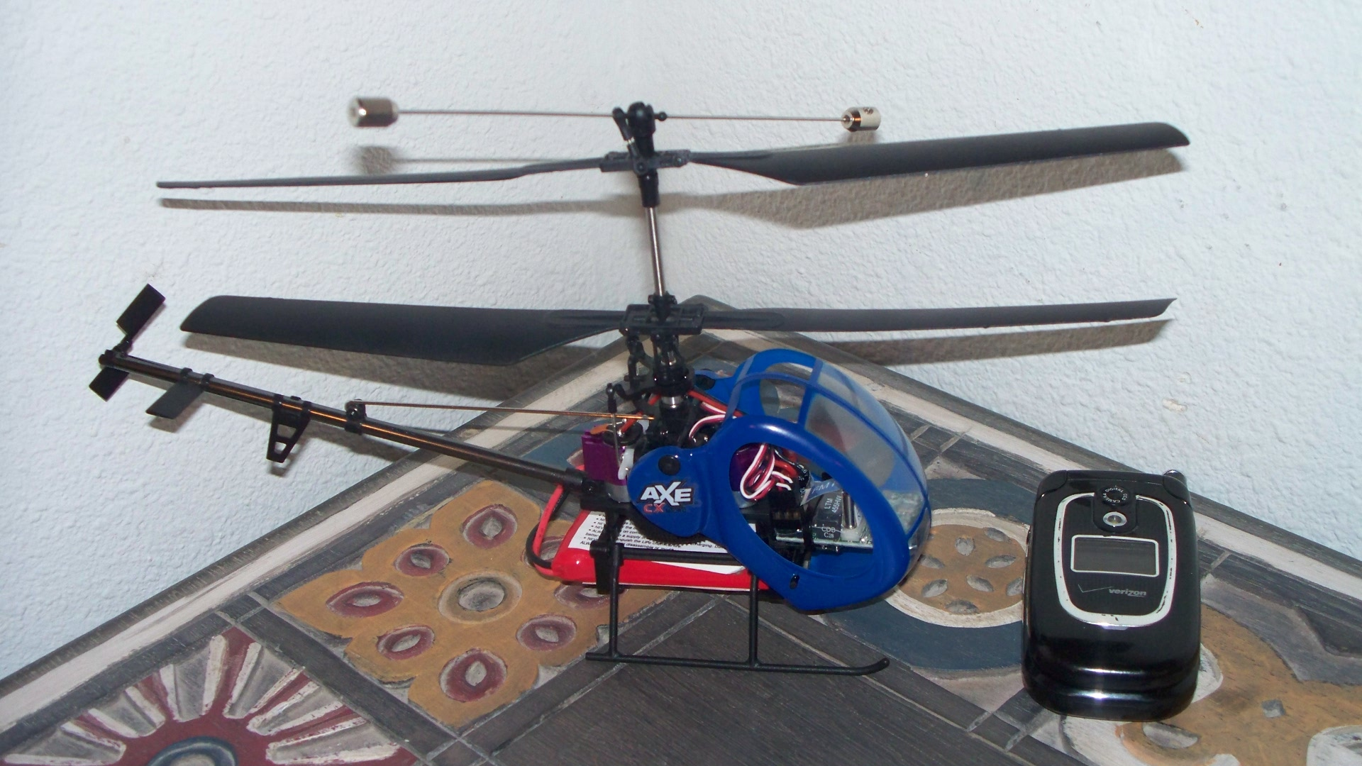 Photograph of a Heli-Max Axe CX Micro radio controlled model helicopter shown with a Qualcomm cellular telephone for size comparison.